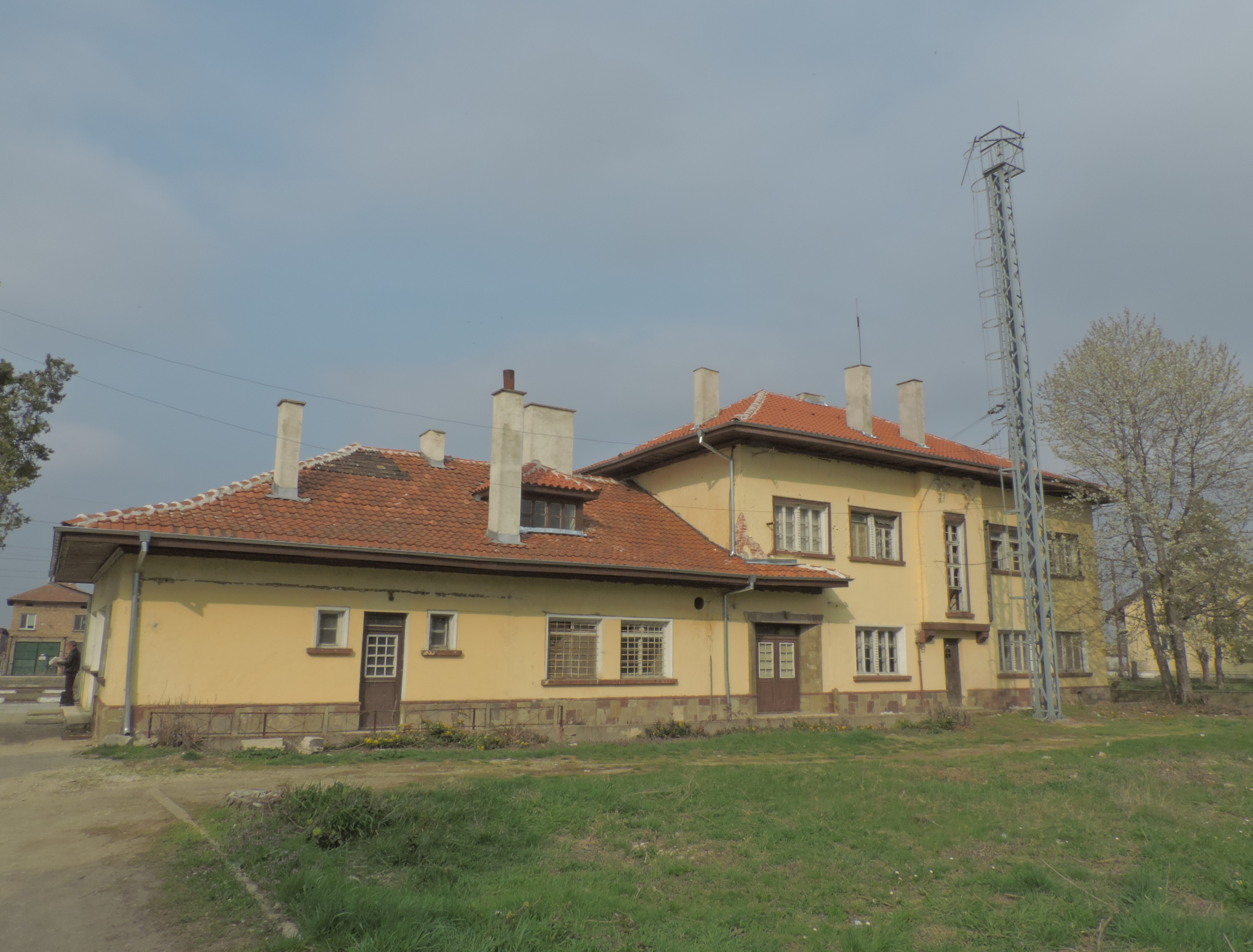 The railway station of Village Gara Oreshtets, Dimovo Municipality, Vidin Province, Bulgaria